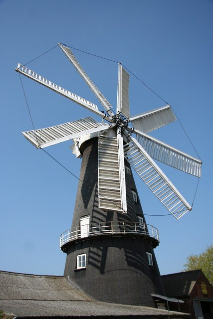 Pocklington's Mill, Heckington. Only complete eight sailed mill in the UK